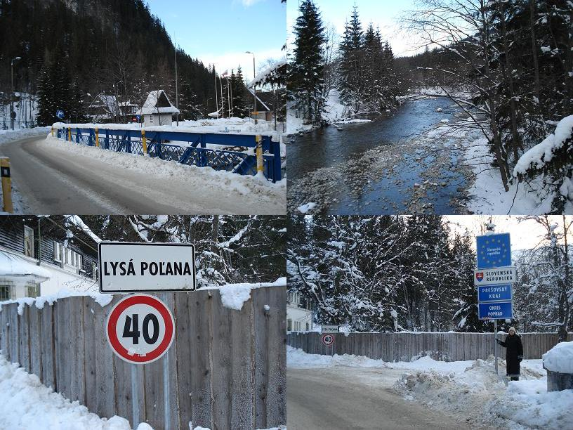 Łysa Polana (Schengen area) - border between Poland and Slovakia. After 21.12.2007 there is no "real" international border (with barriers, border posts and custom officers) any more.